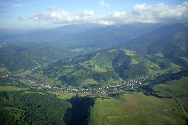 Myto po Dumbierom